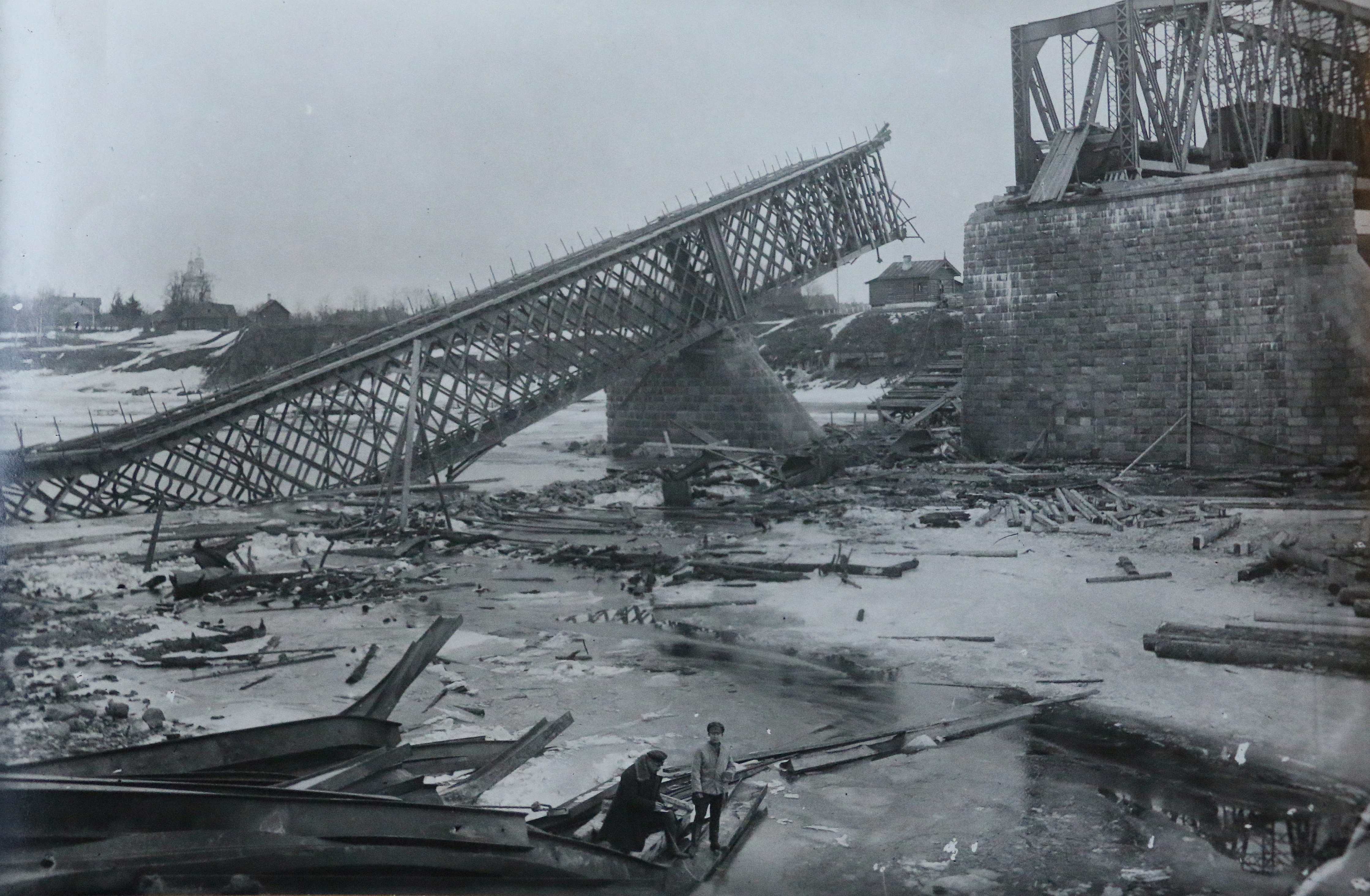 Boris Souvarine Papers - Soviet Russia Photos Notes: Jambourg was an industrial town founded by Catherine the Great. It was a strategic place, serving as a communications nexus, with its river, the Luga. In 1919, during the civil war opposing White Russians and Bolsheviks, Jambourg was an outpost for Narva, an important supply center for the White Russians army. The Jambourg bridge was destroyed and the city was taken by the Red army in August 1919. The back of the photo reads (in French): «Pont de Jambourg démoli par les Blancs et reconstruit par l’armée de travailleurs » (Jambourg Bridge, destroyed by the White Russians and rebuilt by the army of workers». Unknown photographer. Description: 1 photograph. Black and white ; 12 x 17 cm.